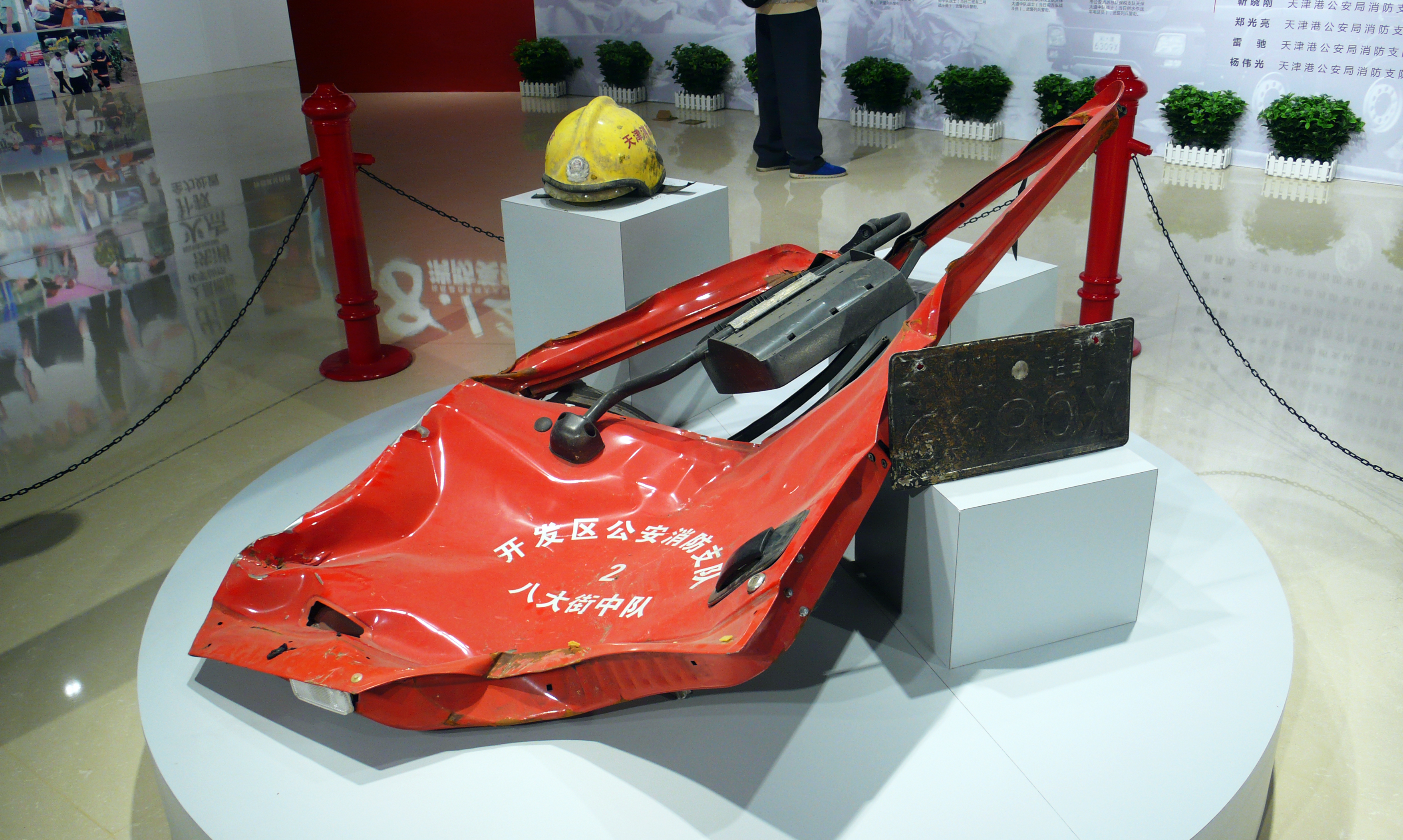 Firefighter's helmet, door and license plate of a fire engine. All damaged in 2015 Tianjin explosion.